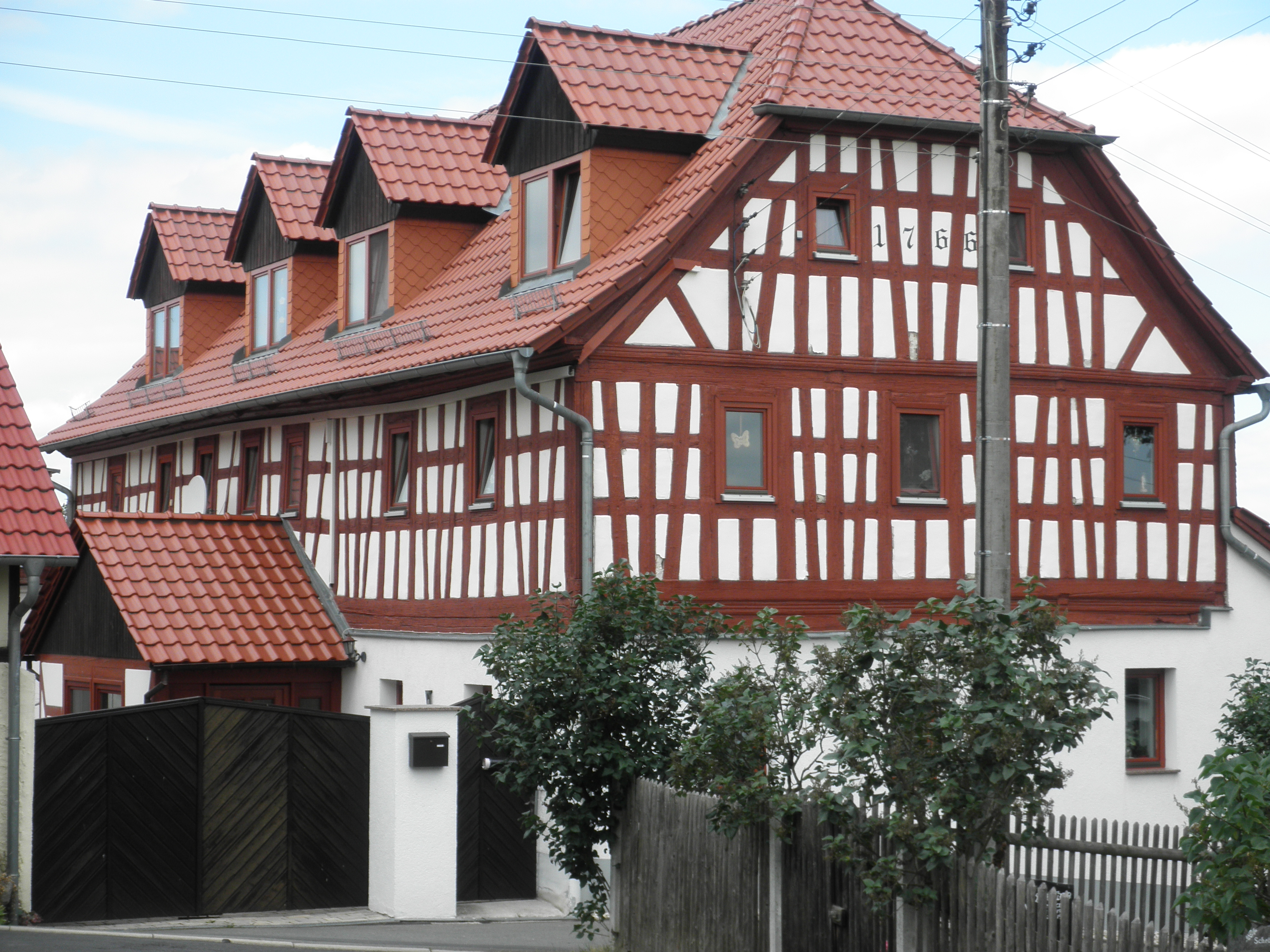 Halftimbered House in Strößwitz in Thuringia